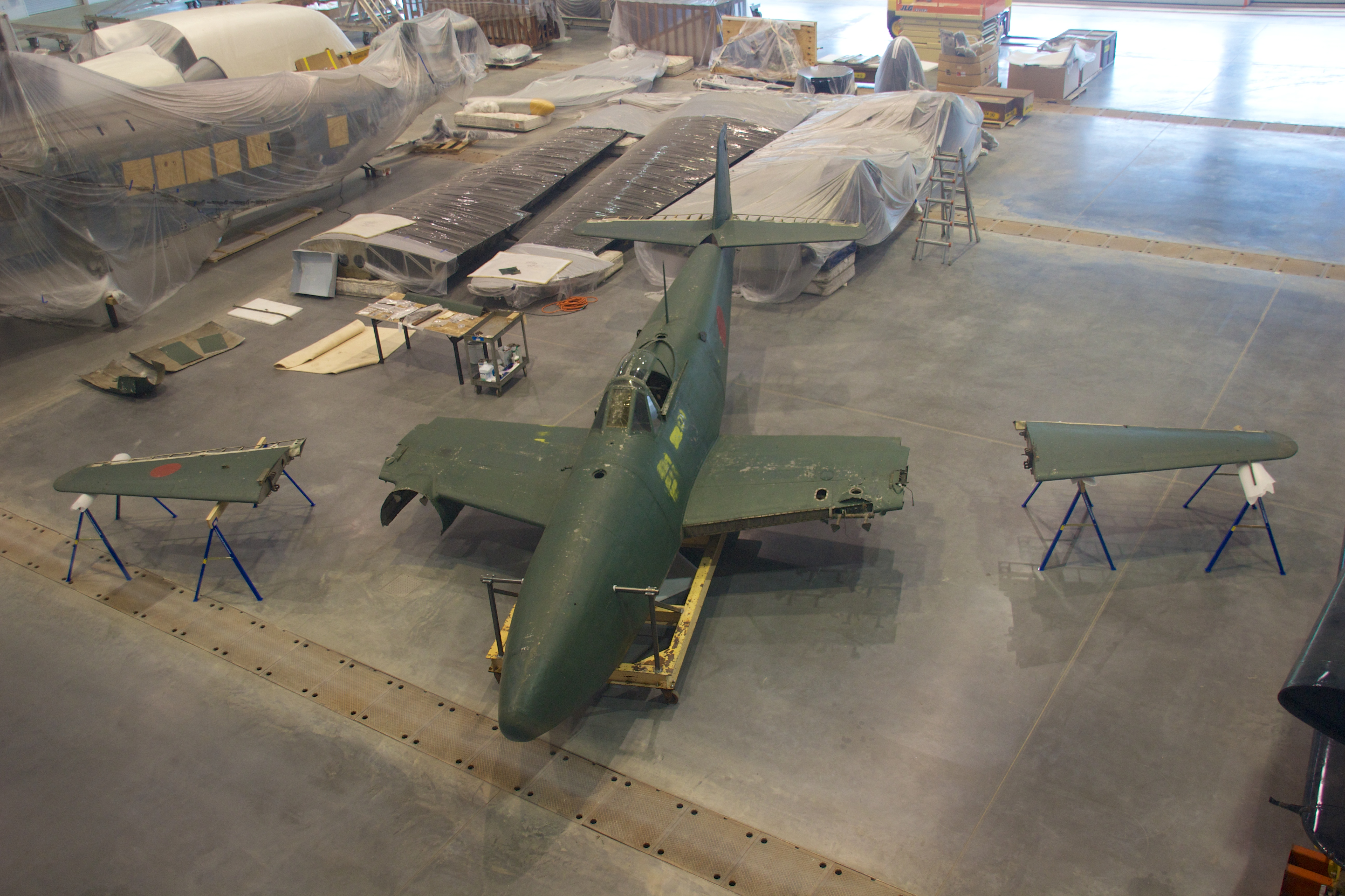 Nakajima Kikka. Restoration hangar at the Steven F. Udvar-Hazy Center, Washington, D.C.